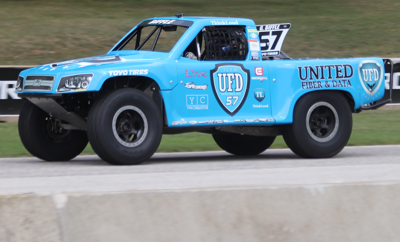 The 2018 Speed Energy Formula Off-Road truck of Greg Biffle at Road America